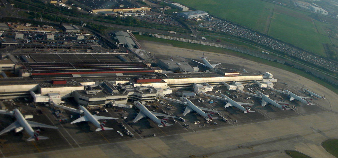 Aerial view of the London Heathrow Airport with several British Airways planes at Terminal 4